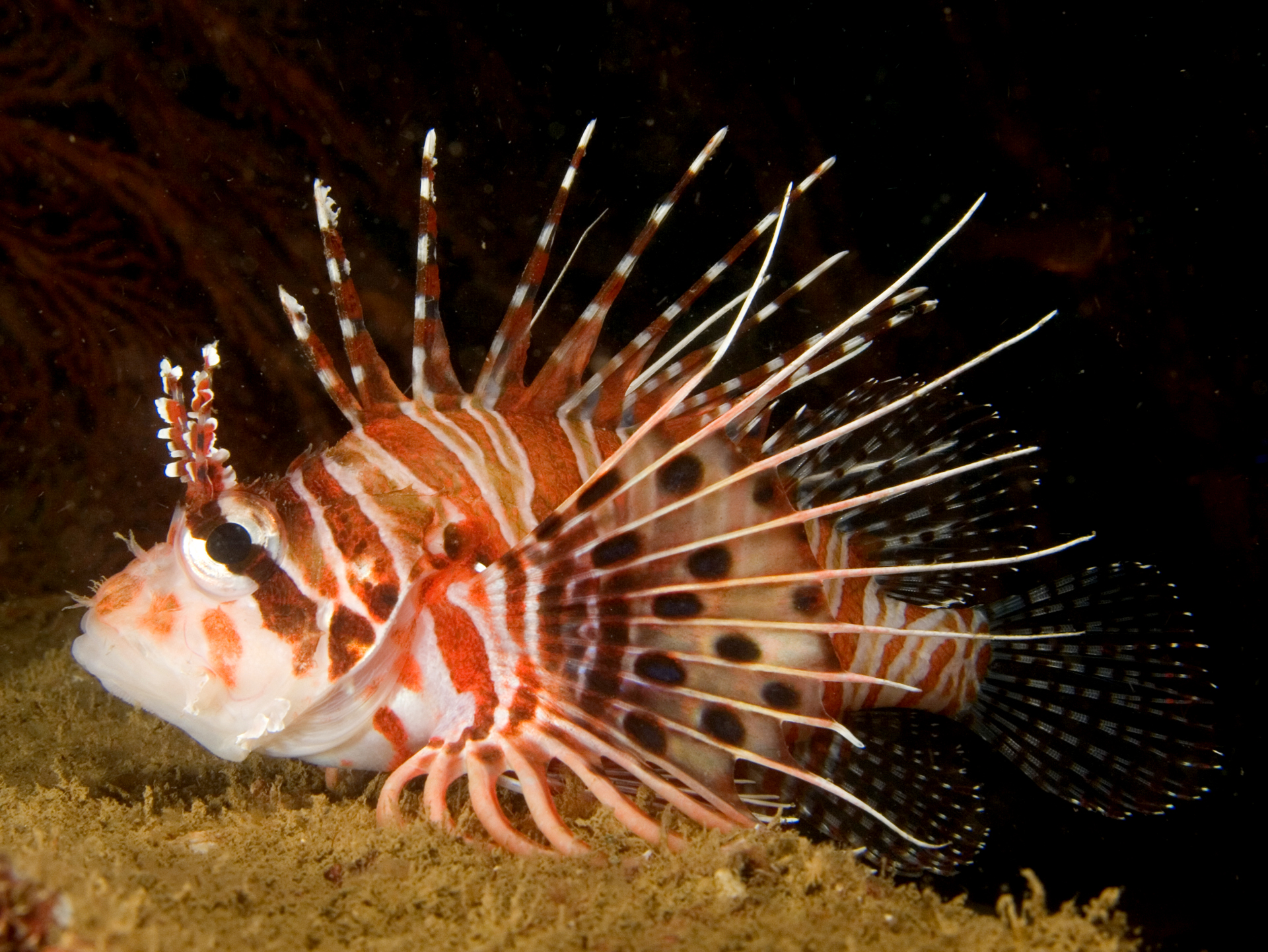 Ragged-finned firefish Pterois antennata